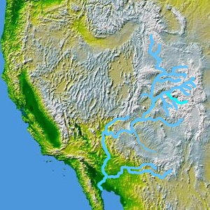 Gunnison River, a tributary of the Colorado River, shown highlighted on a map of the western United States. © 2004 Matthew Trump